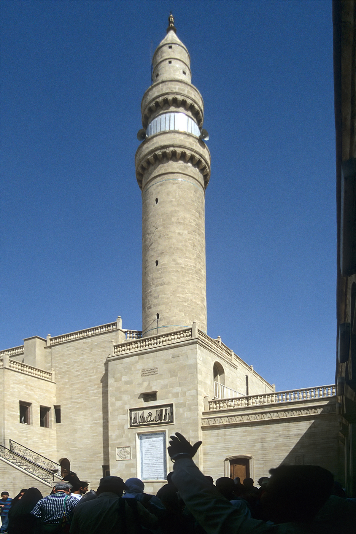 Minaret of the Mosque of the Prophet Yunus, Nineveh, Mosul